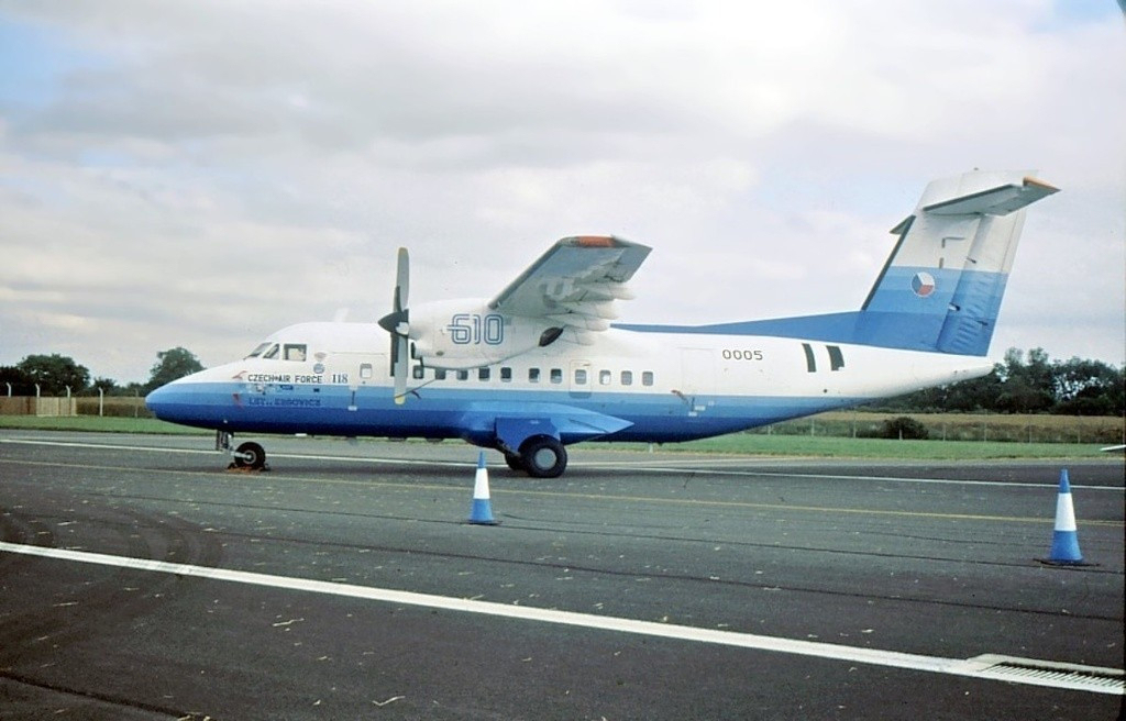 Let L-610M demonstrator at the 1997 Royal International Air Tattoo